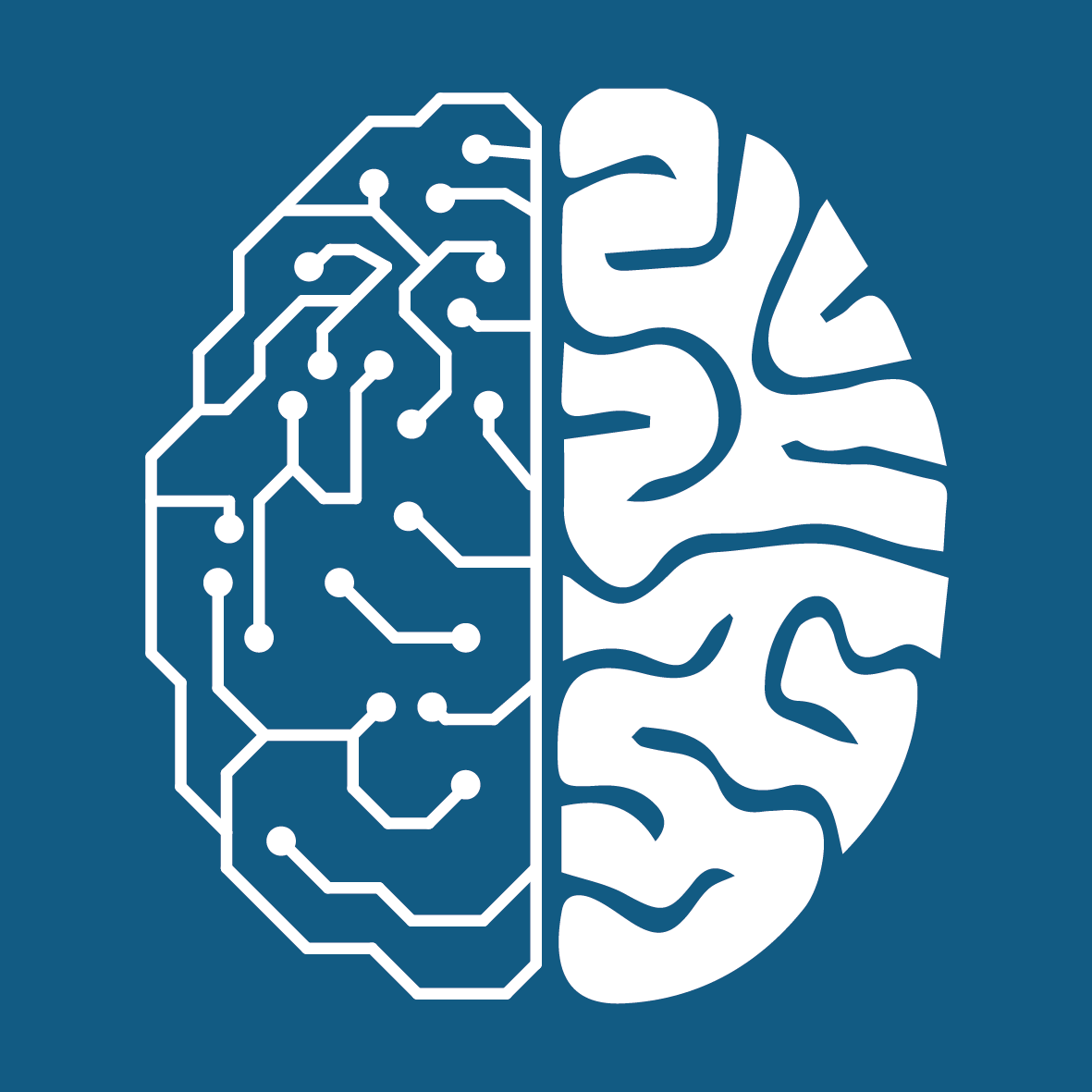 one hemisphere is human brain and another one is artificial brain